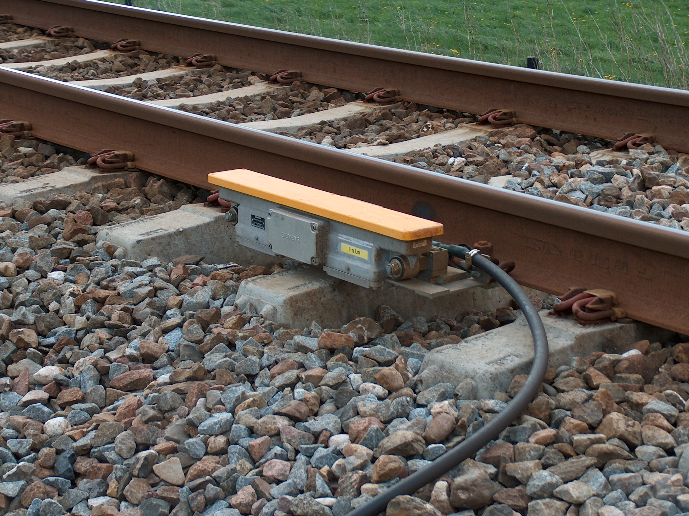 ZUB123 - Danish ATC balise, south of Lem